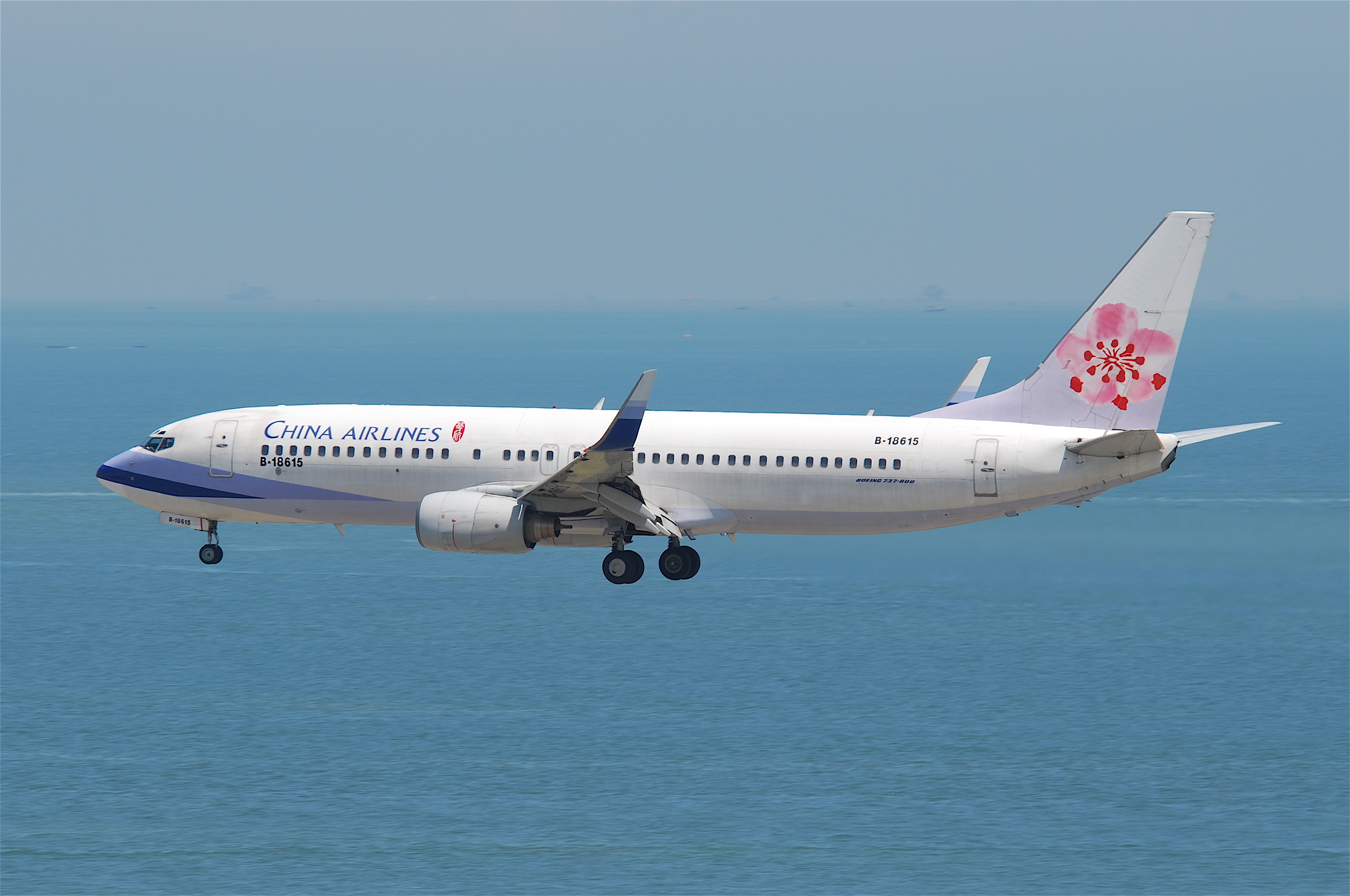 China Airlines Boeing 737-800; B-18615@HKG;04.08.2011/615bf